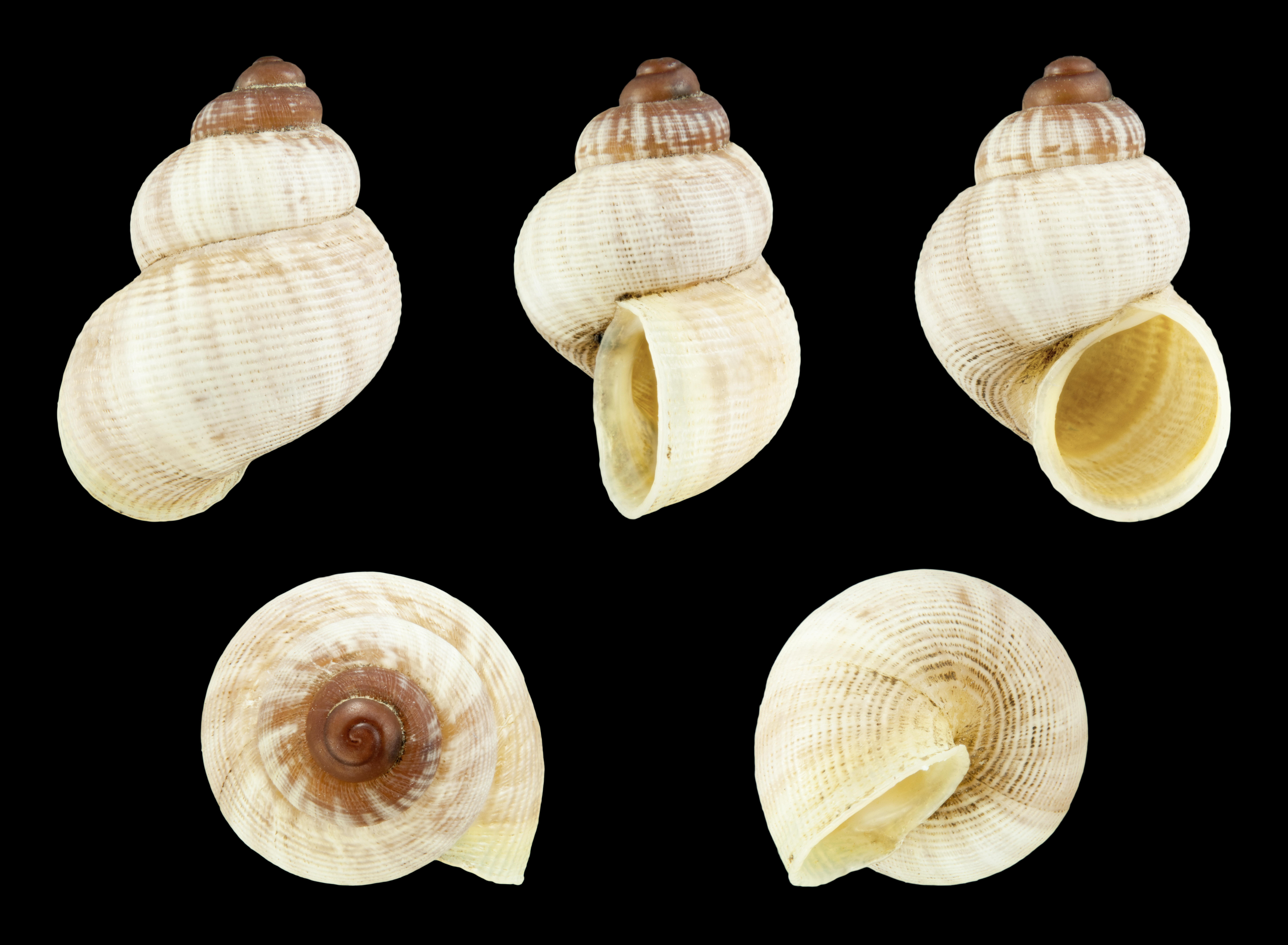 Pomatias elegans Müller, 1774, Round-Mouthed Snail; Length 1.4 cm; Originating from Werrabronn north of Karlsruhe, Germany; Shell of own collection, therefore not geocoded.